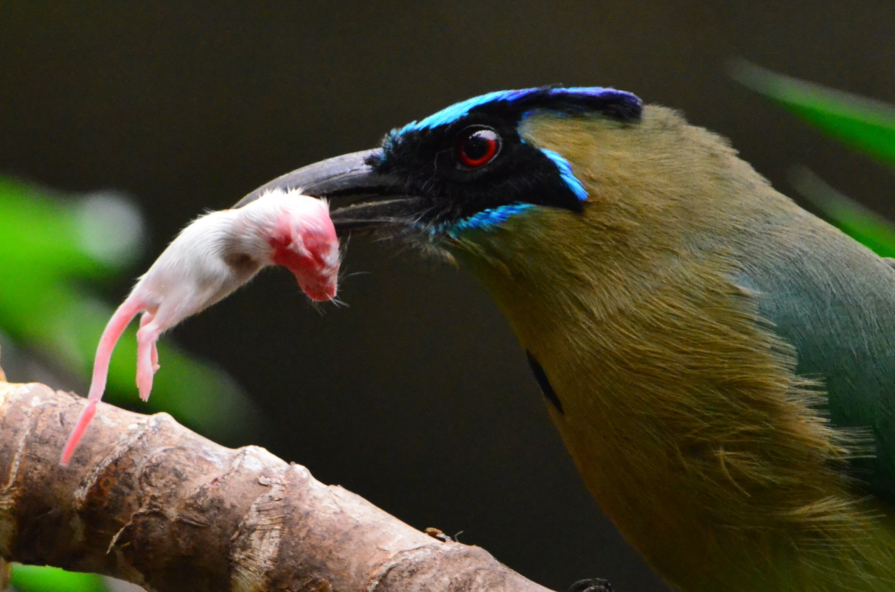 Bird House